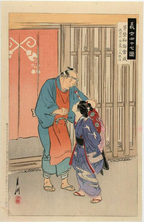 Ronin are masterless samurai. Chushingura is the true story of 47 samurai who became masterless in 1701, after their lord had been forced to commit ritual suicide (seppuku) for assaulting a court official who had insulted him. They avenged him by killing the court official after patiently planning for over a year. They were themselves then forced to commit seppuku.